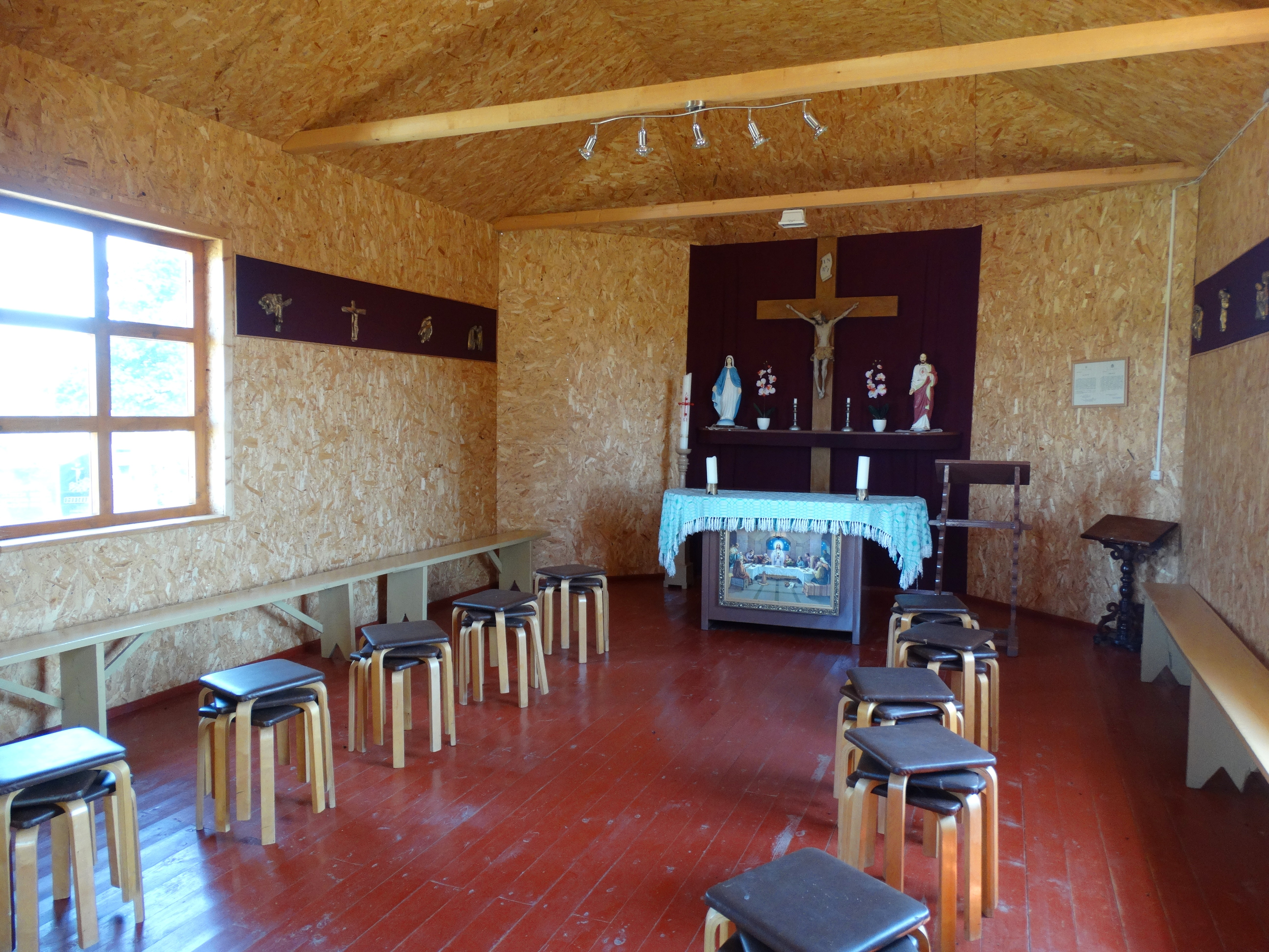 Chapel in Medingėnai, Rietavas Municipality, Lithuania